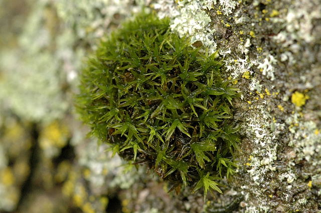 Picture taken in Commanster, Belgian High Ardennes . Species: Orthotrichum affine